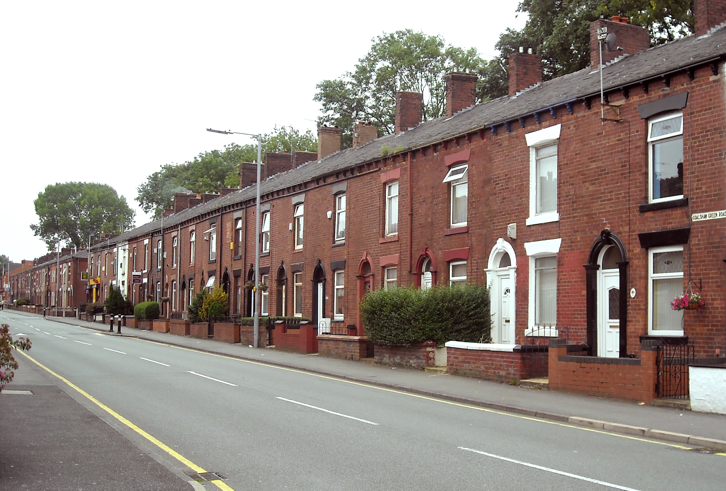 Row of terraced houses in Chadderton, Greater Manchester, England. This row is on Coalshaw Green Road.